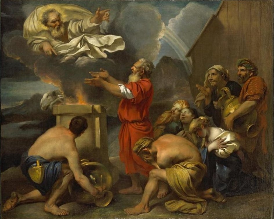 Noah's Offering